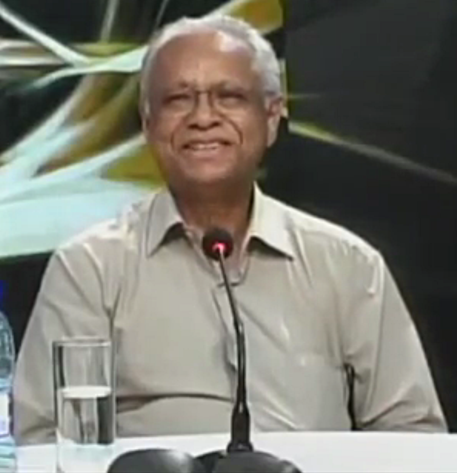 Eddy Jharap, Surinamese geologist and former managing director of Staatsolie